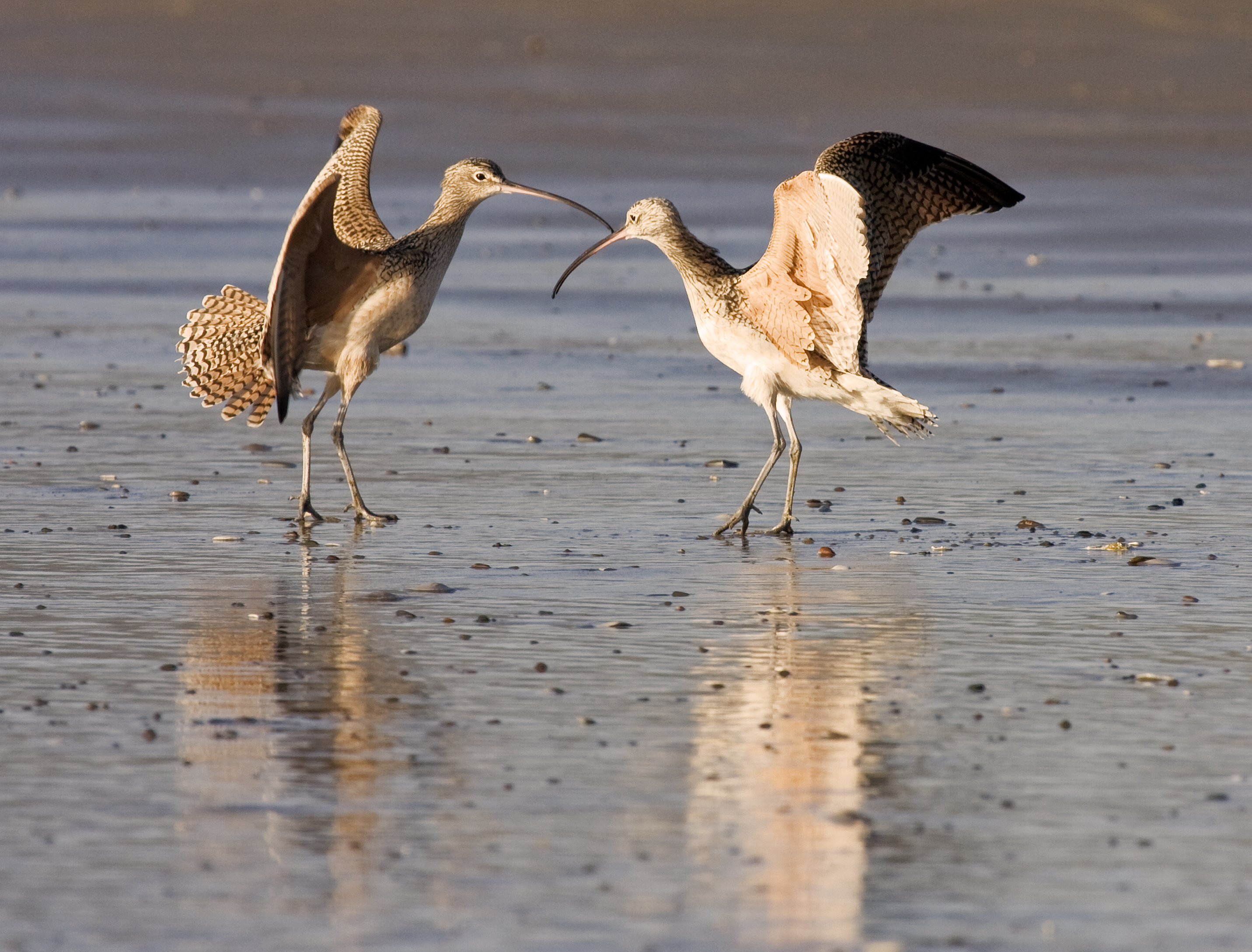 Spring is in the air. Long-billed Curlews (Numenius americanus) courting on Morro Strand State Beach. 40D and 100-400L hand held.